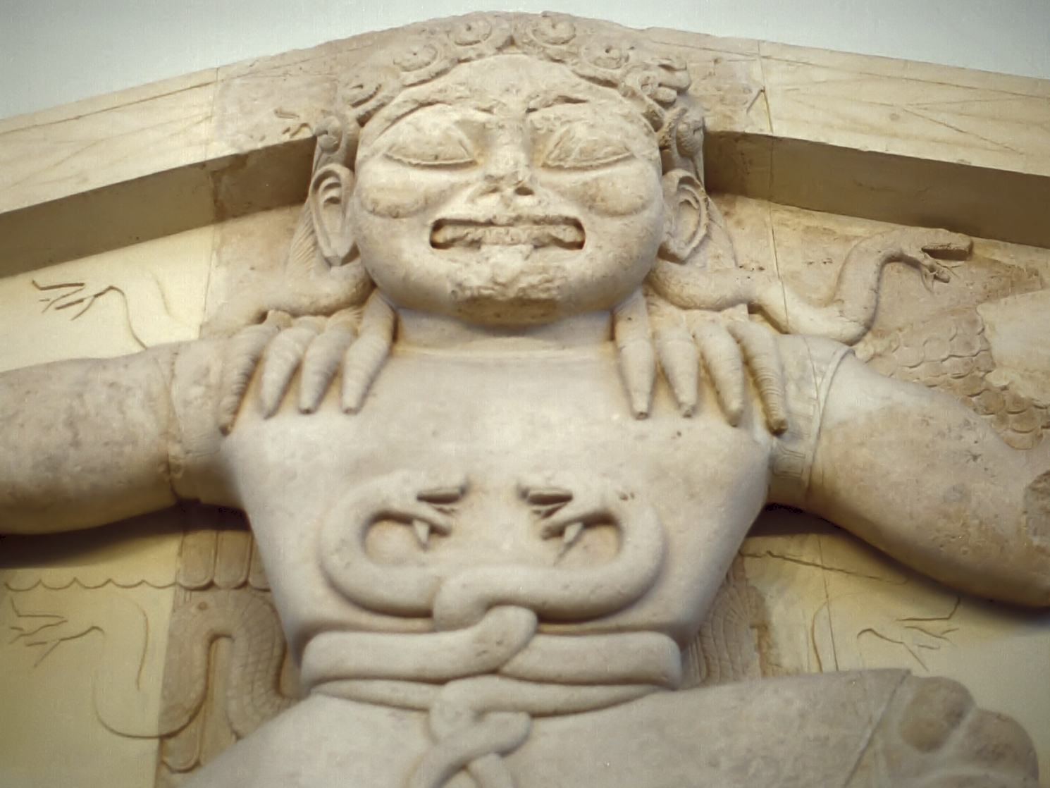 Západní tympanon Artemísia, centrální část. Obří Gorgóneion, 580 BC. Archeologické muzeum na Korfu.